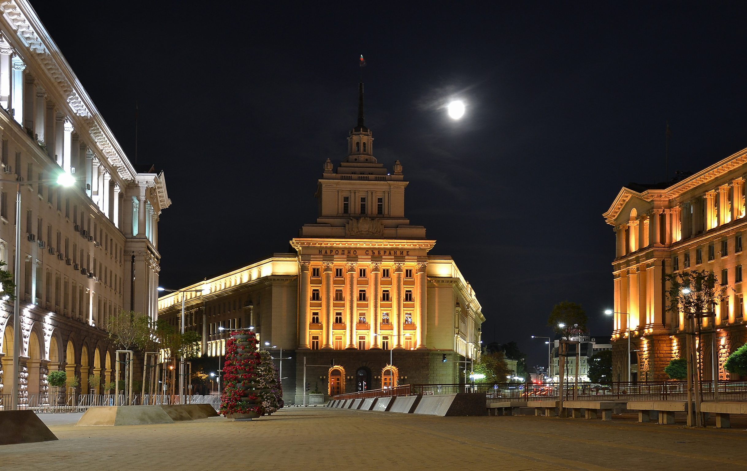 The Party House, Largo, Sofia, Bulgaria.